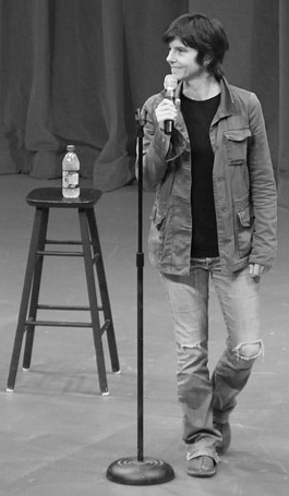 Primary identification of the person described in the biography of a living person